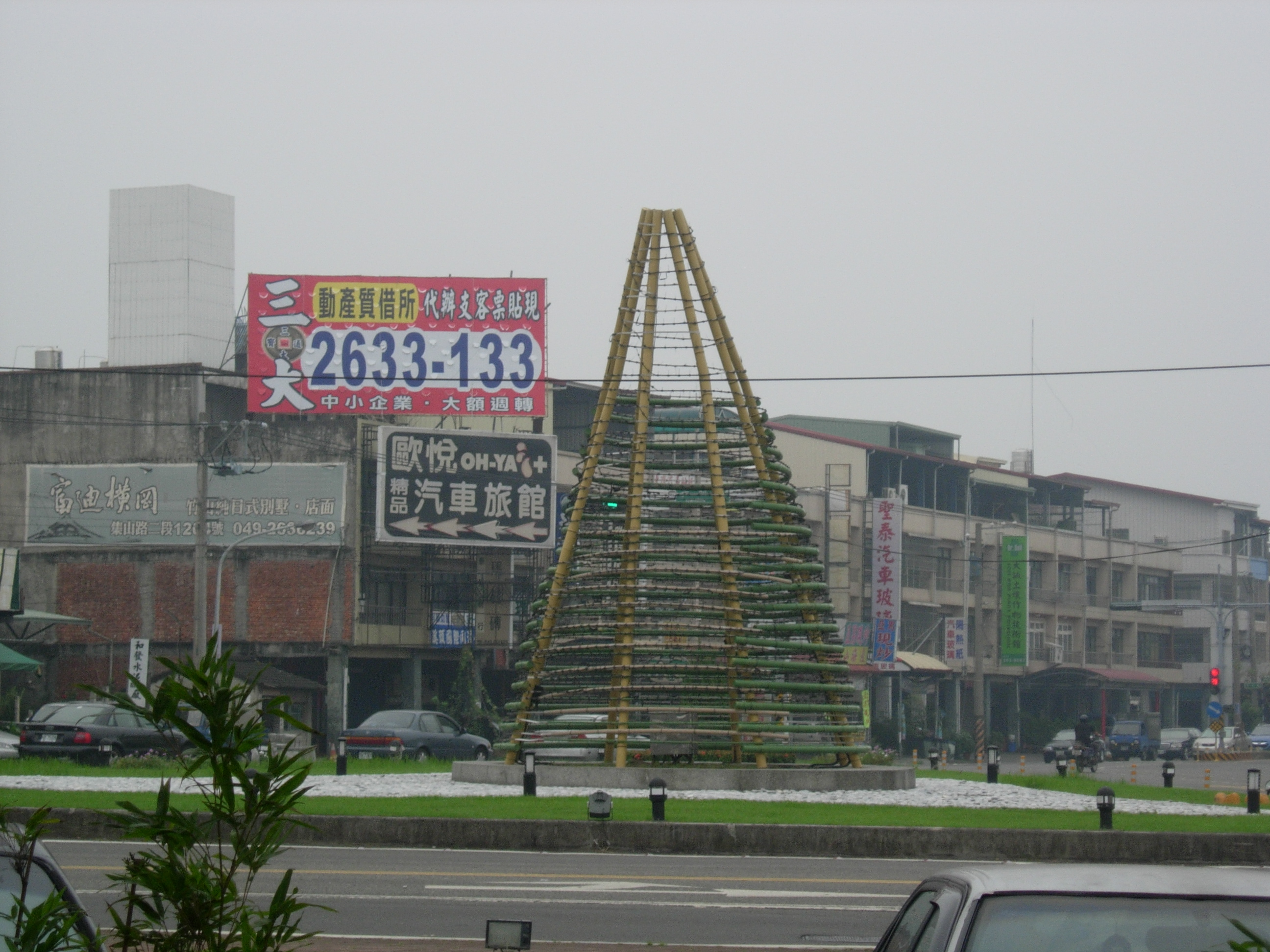 Chushan town Landmark